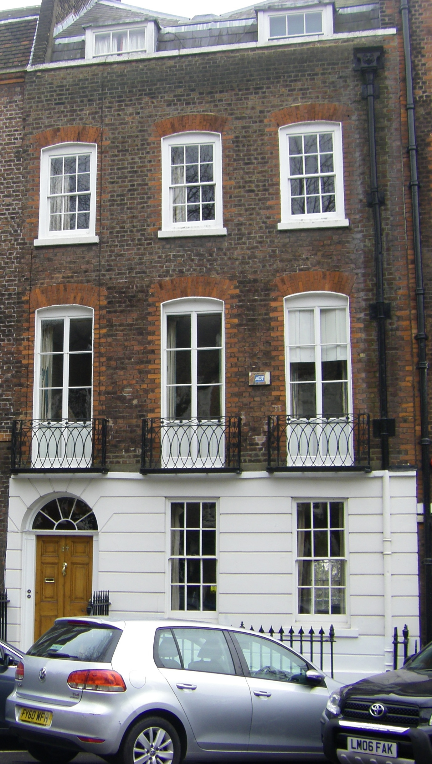 In this house lived H.G. Wells between 1909 and 1912 and later Peter Cook who had so illustrious guests like John Lennon, Paul McCartney, Peter Ustinov and Peter Sellers ( please compare with ).